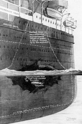 After the Lusitania was hit, there was confusion about the nature of the two explosions. Although most agreed that a torpedo had hit forward, near or under the bridge.